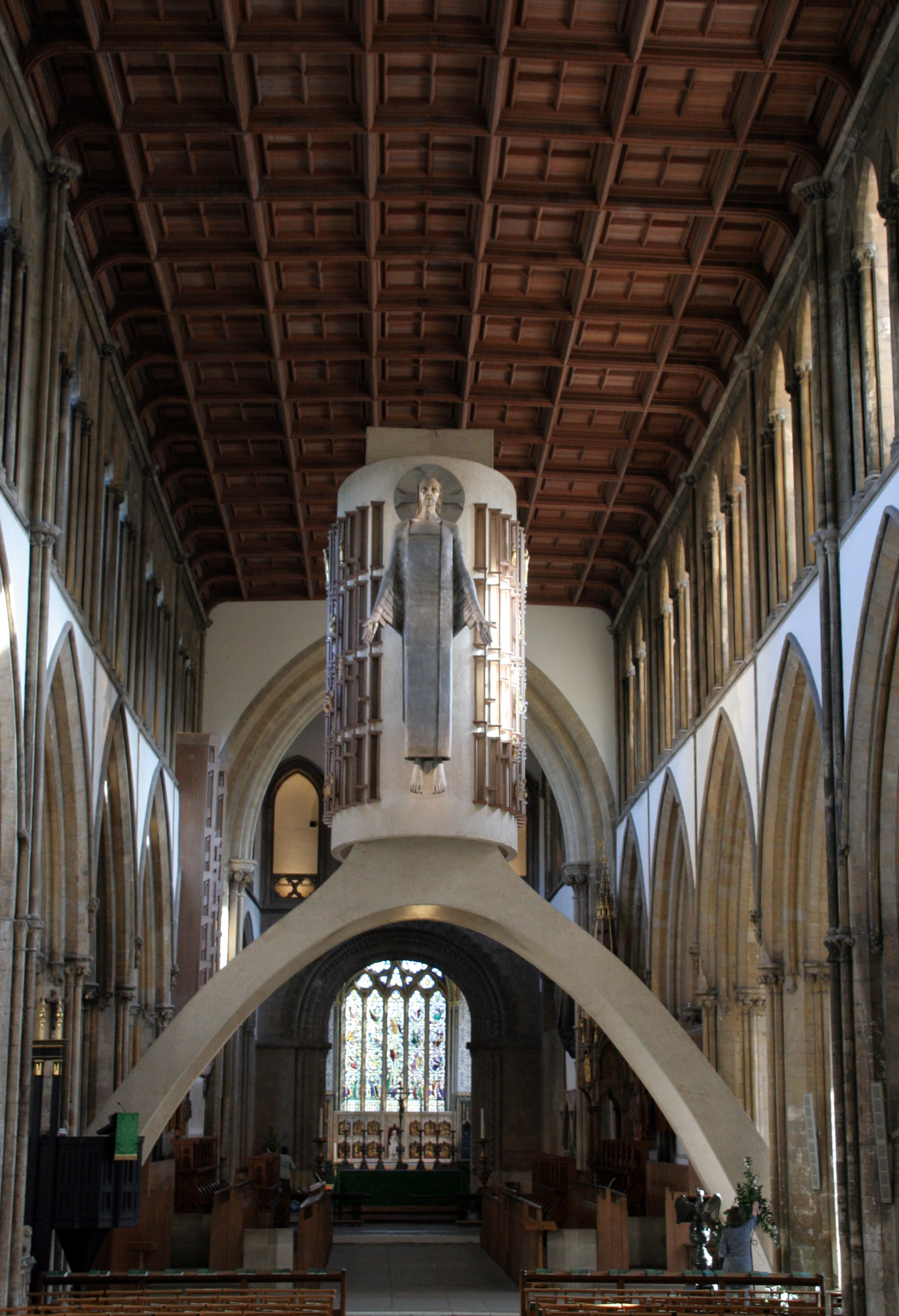 Epstein's Christ in Majesty Llandaff Cathedral